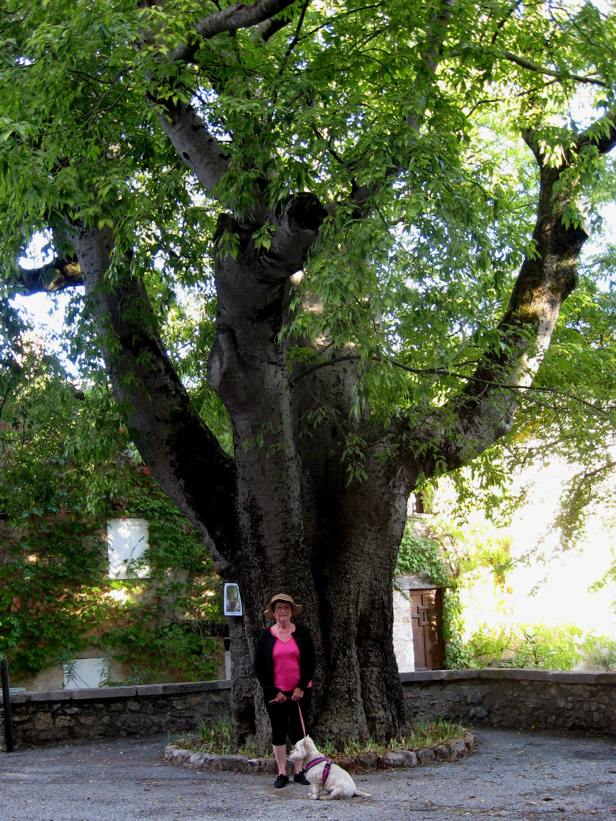 Photo of the bole of huge Celtis autralis tree in front of the church at Fox-Amphoux, France, planted in 1560